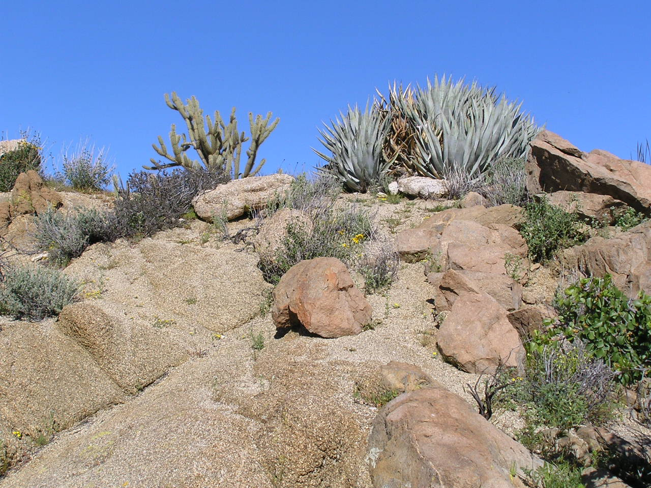 Plants of the Anza-Borrego Desert Park, San Diego County, California, United States of America.